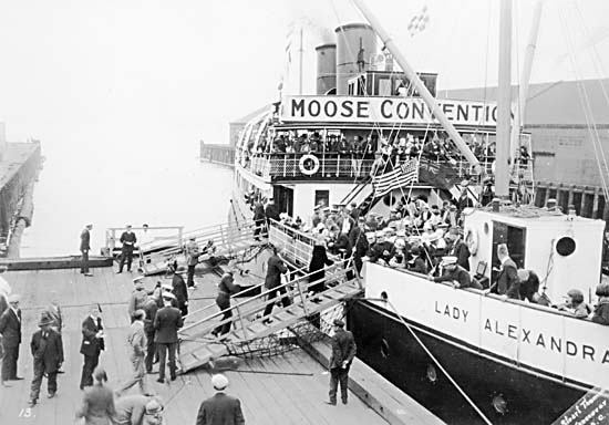 Steamship Lady Alexandra, embarking passengers, consisting of the 11th Annual Convention of the Northwest chapters of the Benevolent and Protective Order of Moose, June 3-5, 1926.